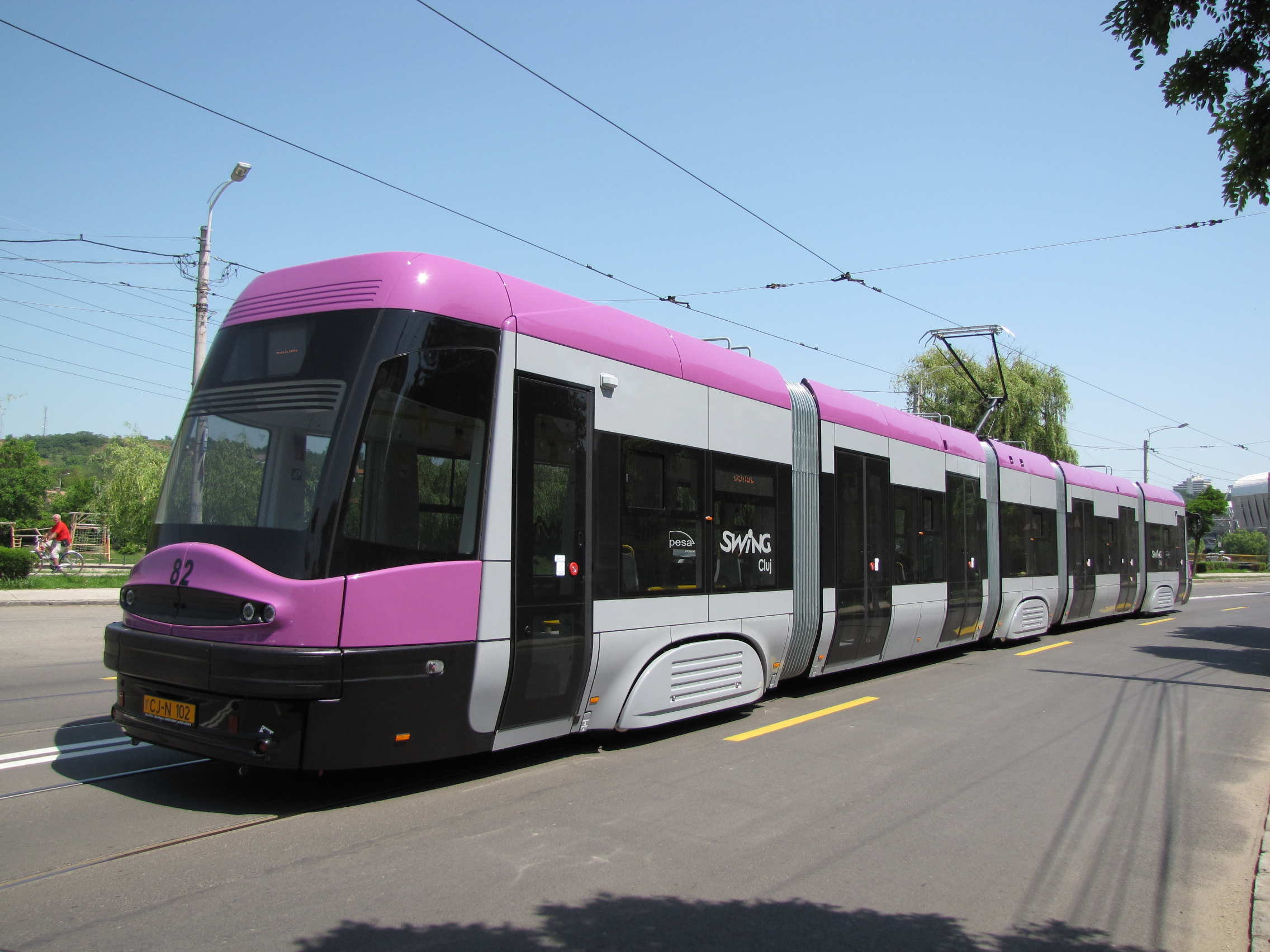 The second new tram in Cluj-Napoca, Romania, in its first day of test drives. Location: Splaiul Independentei.